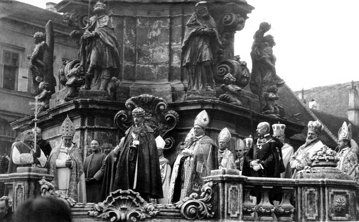 Coronation of Charles I of Austria. Charles was crowned in Budapest on 30 December 1916. The coronation took place in the Matthias Church, where - for the first time in the history of coronations - the Hungarian national anthem was sung, not the Austrian. With him was crowned Hungarian queen wife, Zita of Bourbon-Parma princess, whom he married in 1911. To the left is Cardinal János Csernoch, Archbishop of Esztergom and Primate of Hungary.